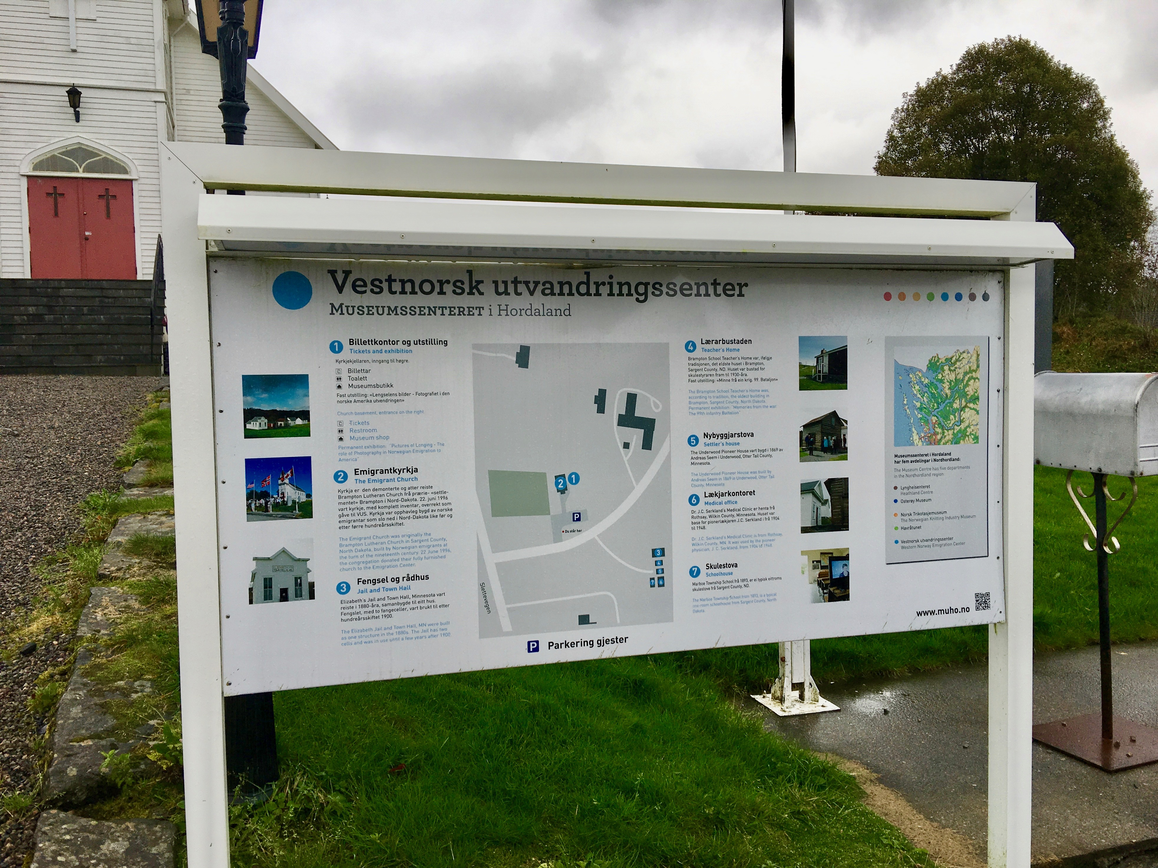 Information board by the "Emigrantkyrkja/Emigrantkirken" (former Brampton Lutheran Church, North Dakota) moved 1996 to "Vestnorsk utvandringssenter/utvandrarsenter" (Western Norway Emigration Center) in Radøy, Hordaland, Norway. Photo 2017-10-03